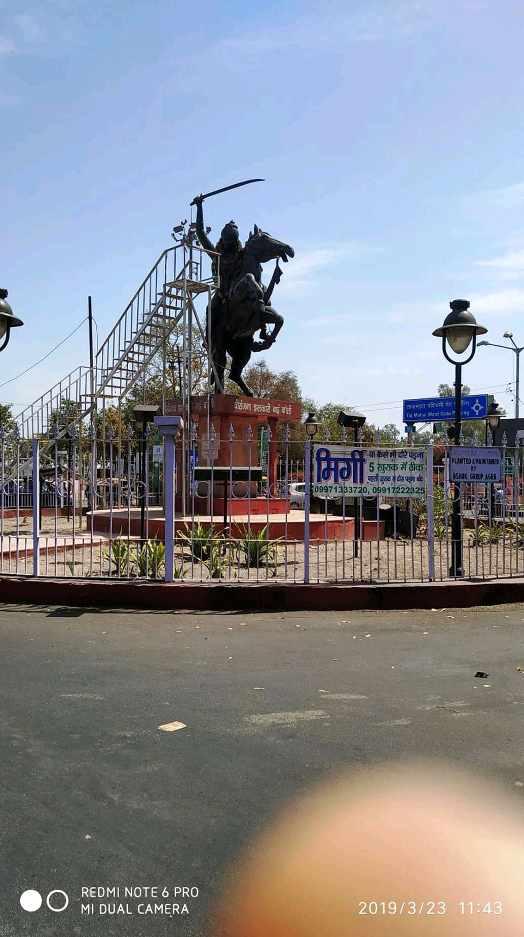 Jhalkari Bai Chowk Agra, Uttar Pradesh